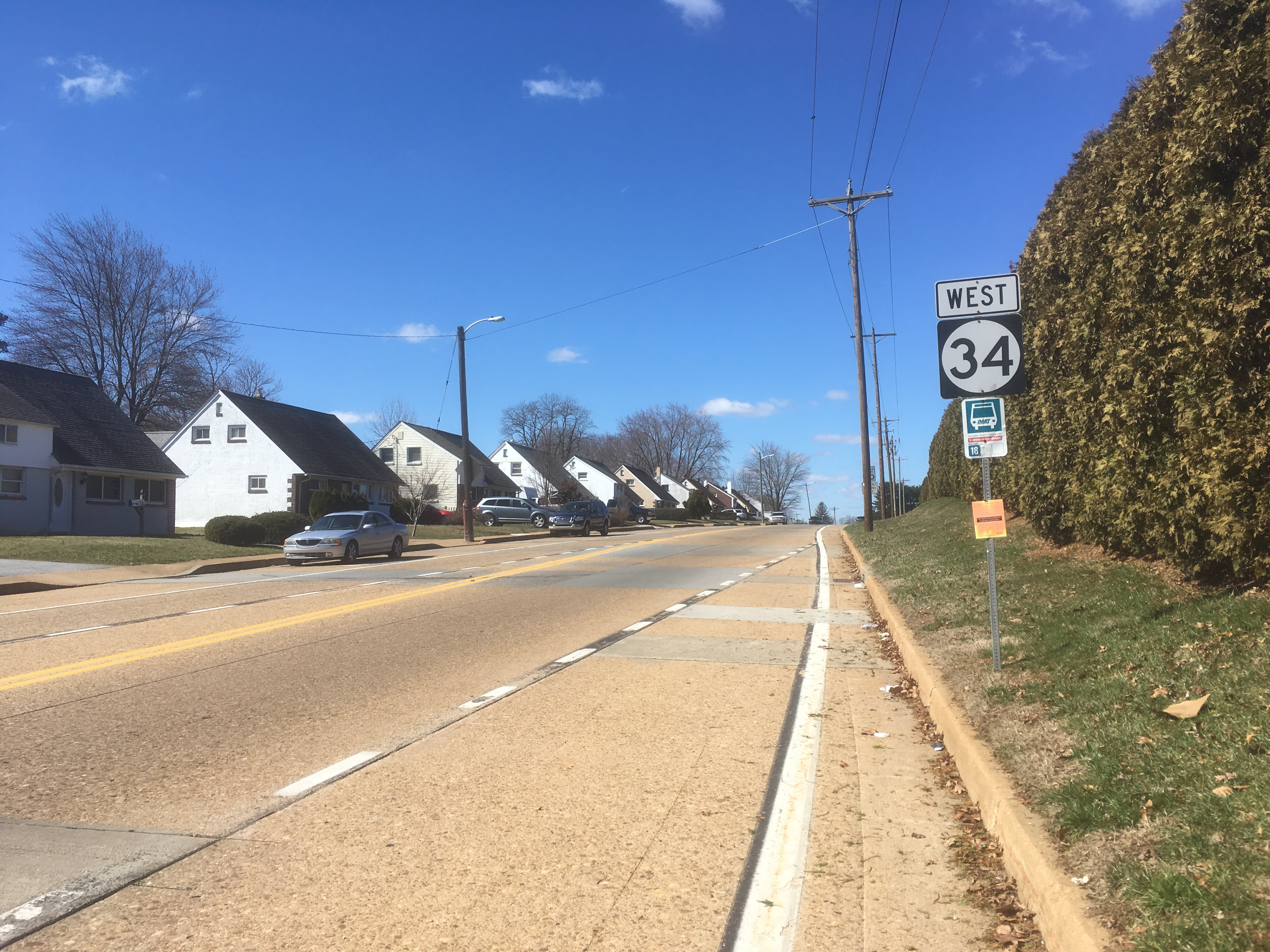 Westbound Delaware Route 34 (Faulkland Road) past the intersection with Montgomery Road west of Wilmington, Delaware